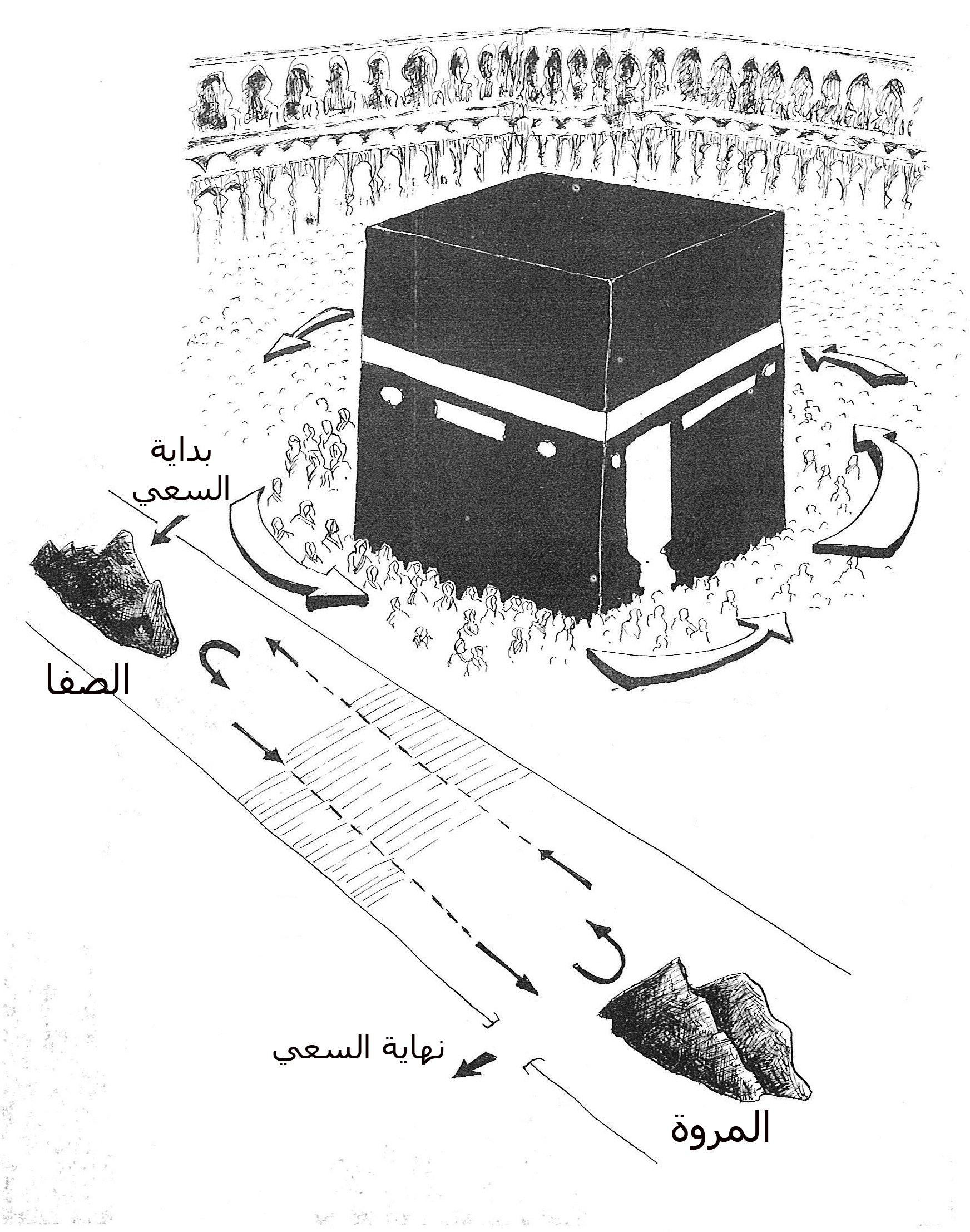 The Kaaba in Mecca, and the directions of the ritual walk during Hajj